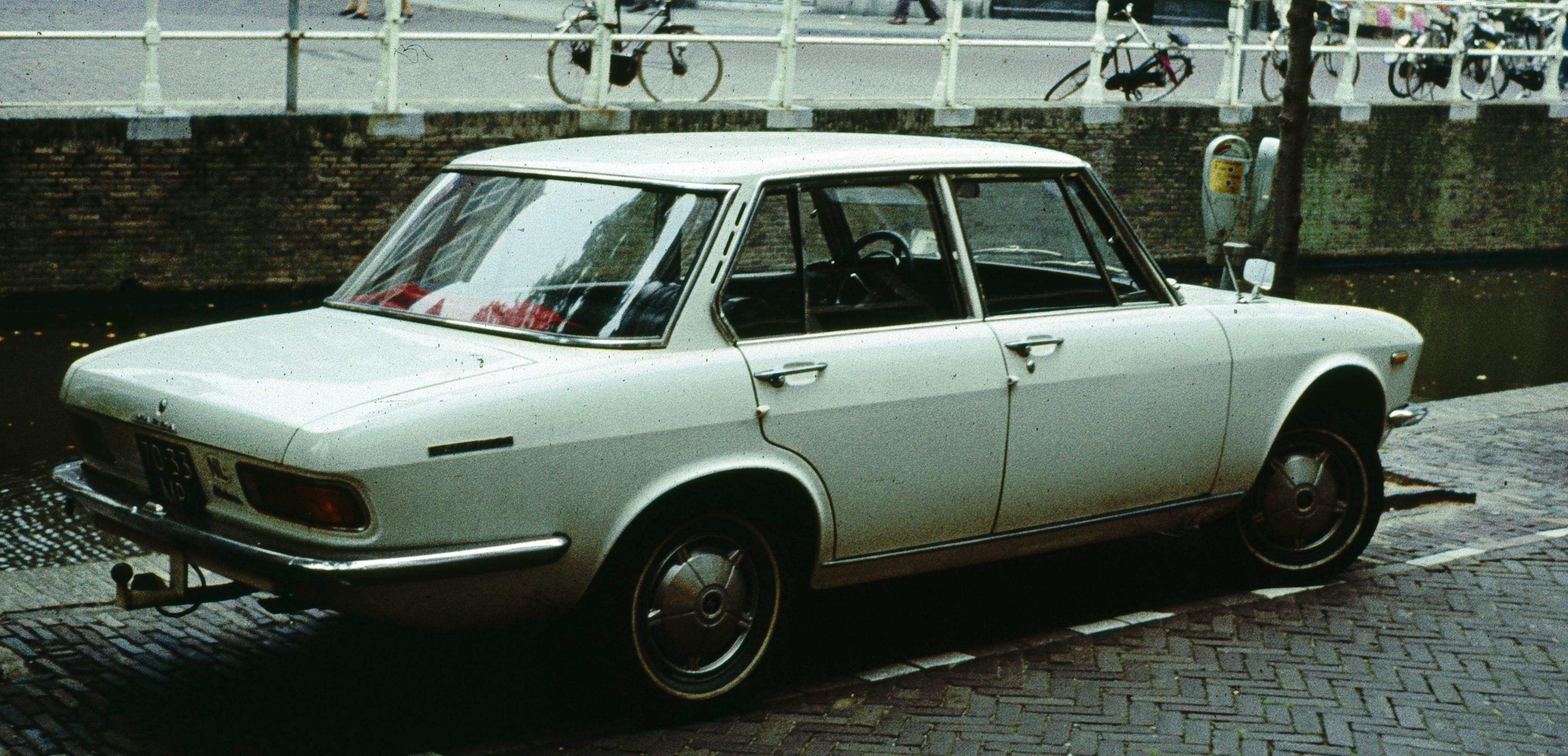 Mazda 1800 by a canal in (as far as the photographer can remember) Leiden